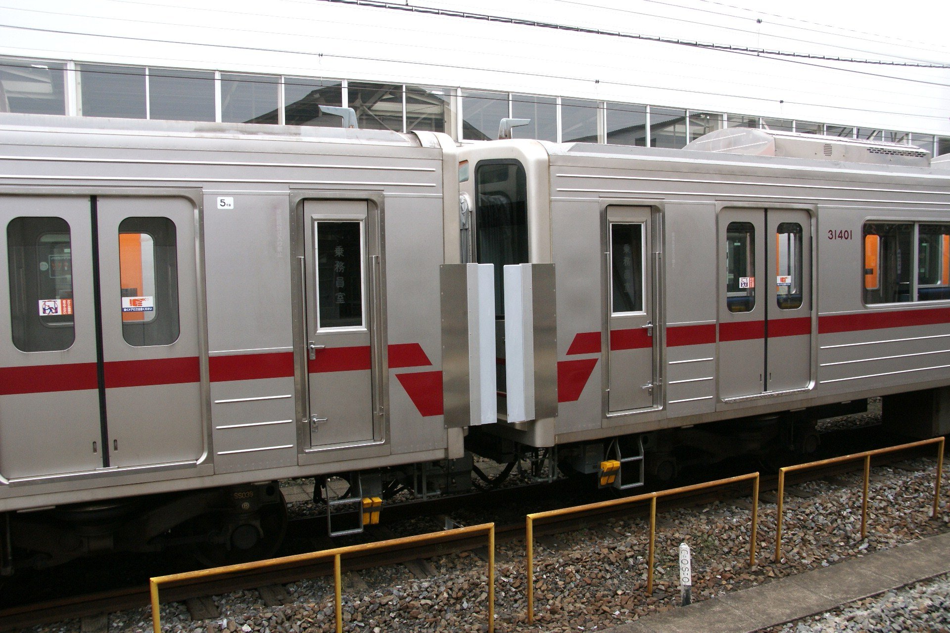 Permanently-coupled former driving cabs of Tobu 30000 series EMU sets 31601 and 31401 at Kawagoeshi Station on the Tobu Tojo Line during driver training